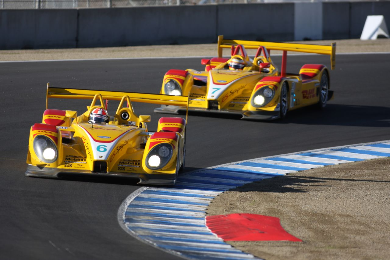 Sascha Maassen in front of Timo Bernhard, both in a Penske Racing Porsche RS Spyders at the 2007 Monterey Sports Car Championships